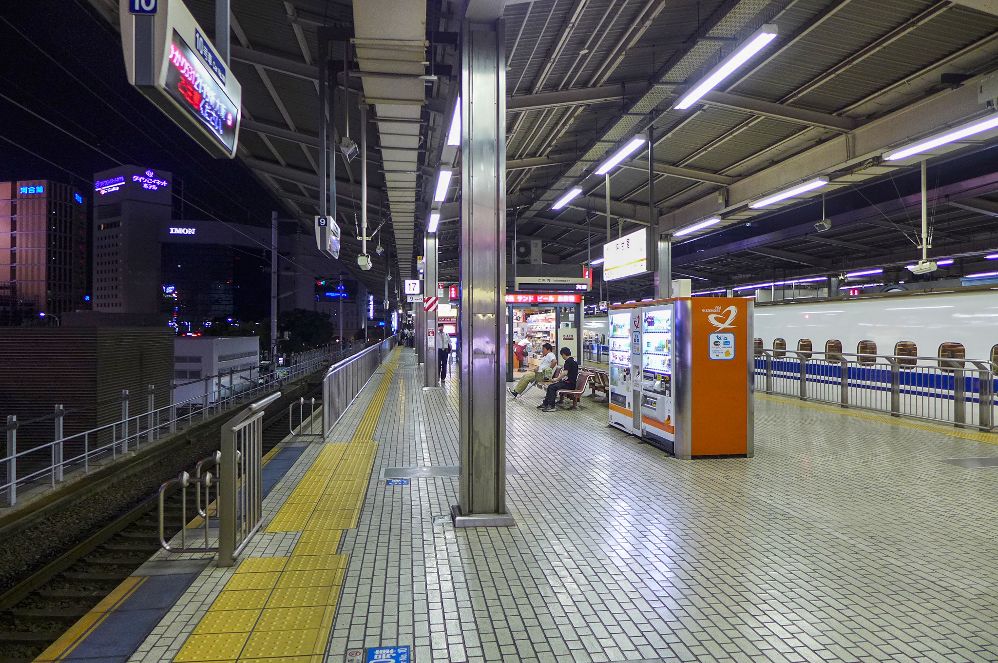 The Tokaido Shinkansen platform 16/17 at Nagoya Station in Aichi Prefecture, Japan